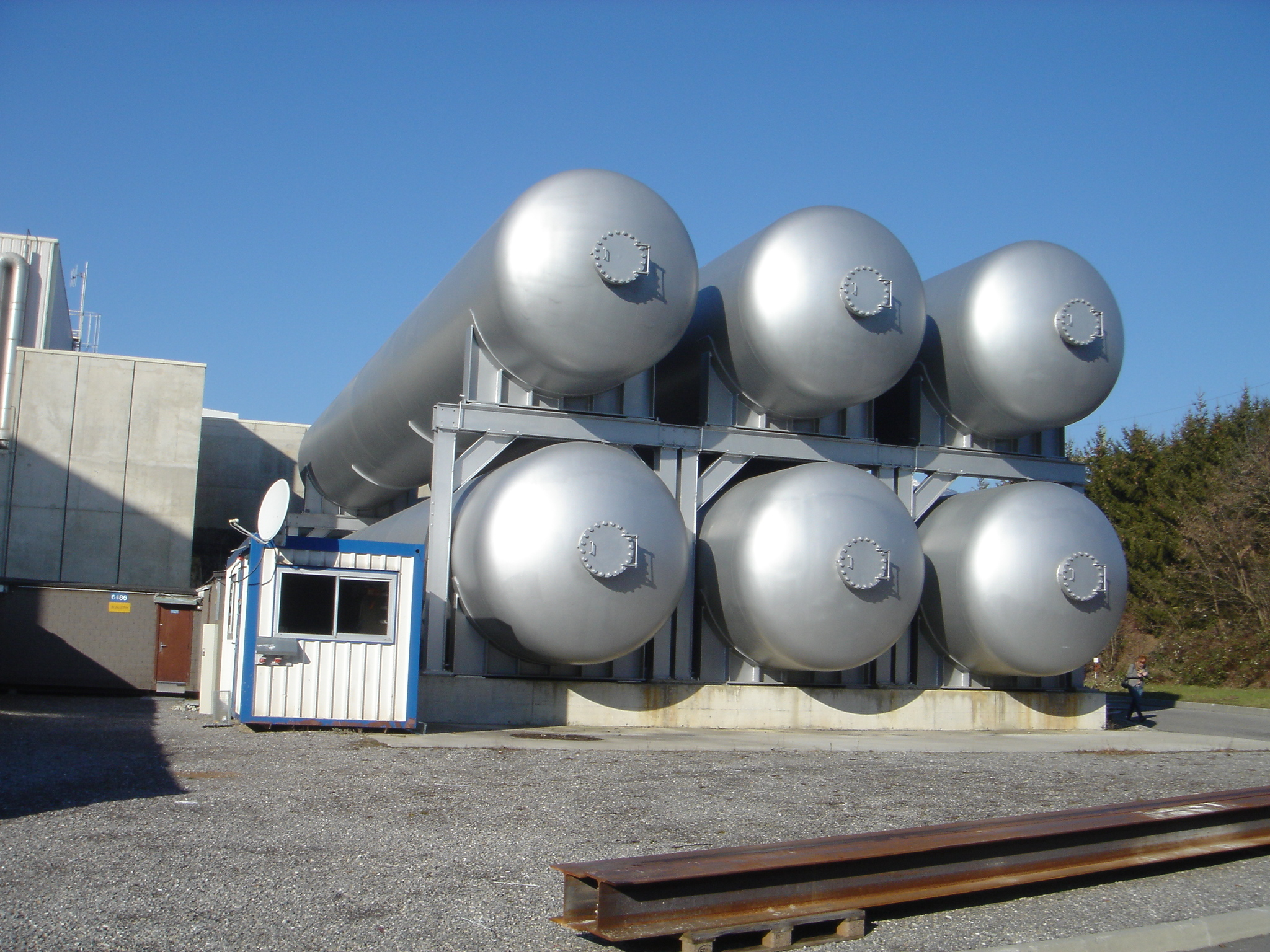 Helium tanks for cryoplant at Large Hadron Collider.